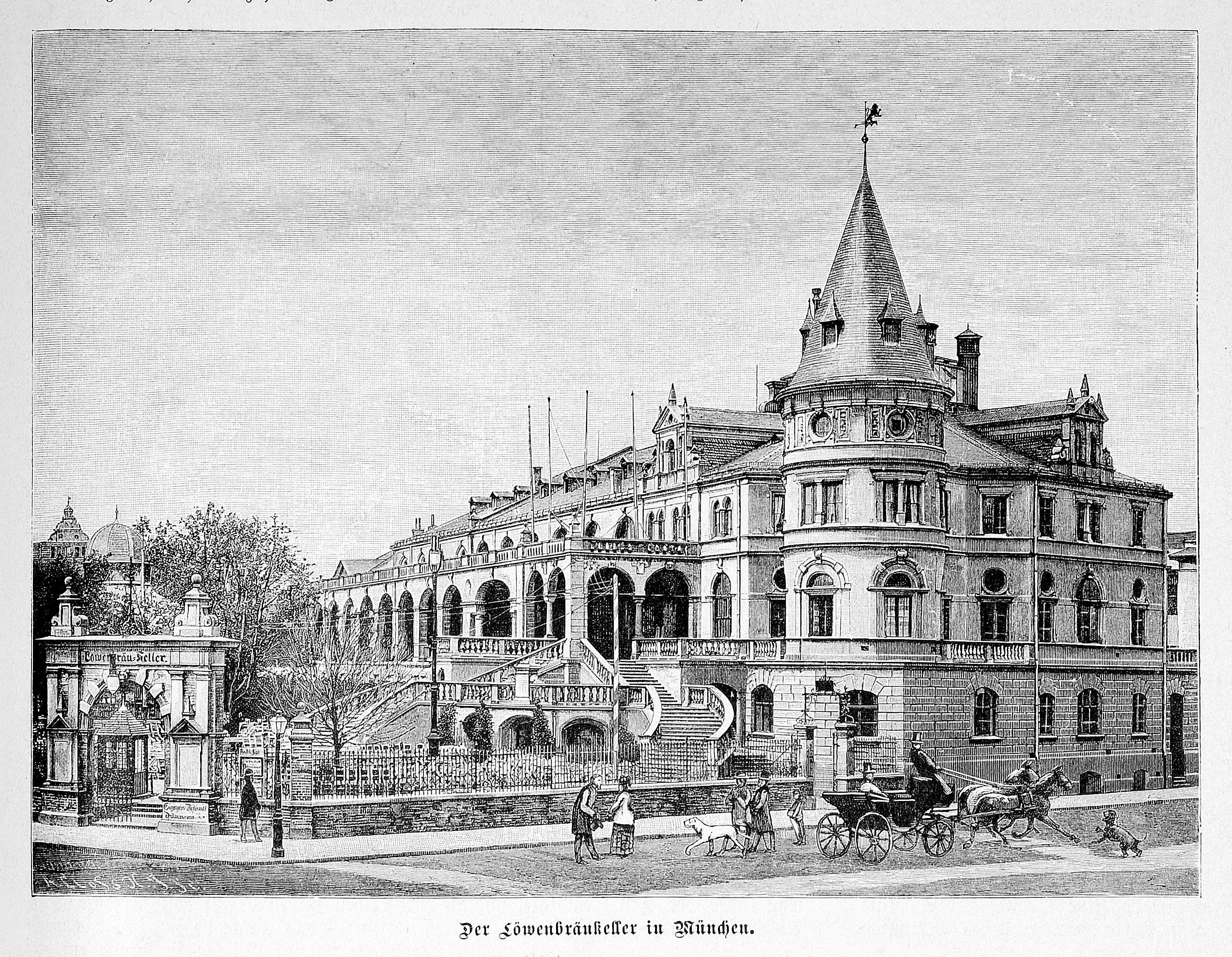 caption: "Der Löwenbräukeller in München."